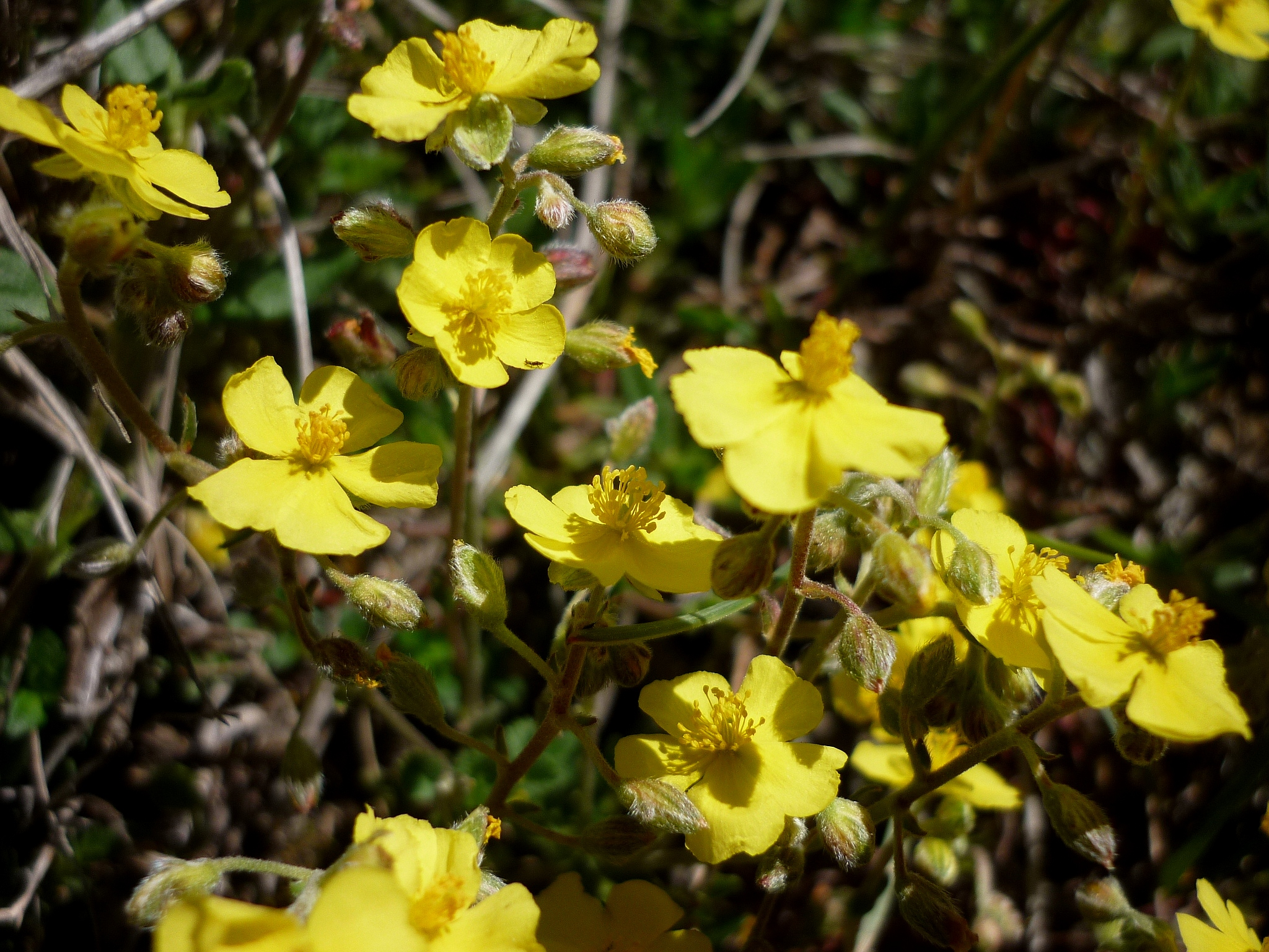 Helianthemum oelandicum. Near Tossal de l'Àliga, in l'Alzina d'Alinyà (Alt Urgell-Catalunya). To 1.540 m. altitude